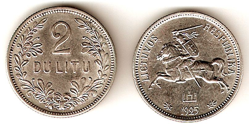 2 litai coin, 1925, Lithuania